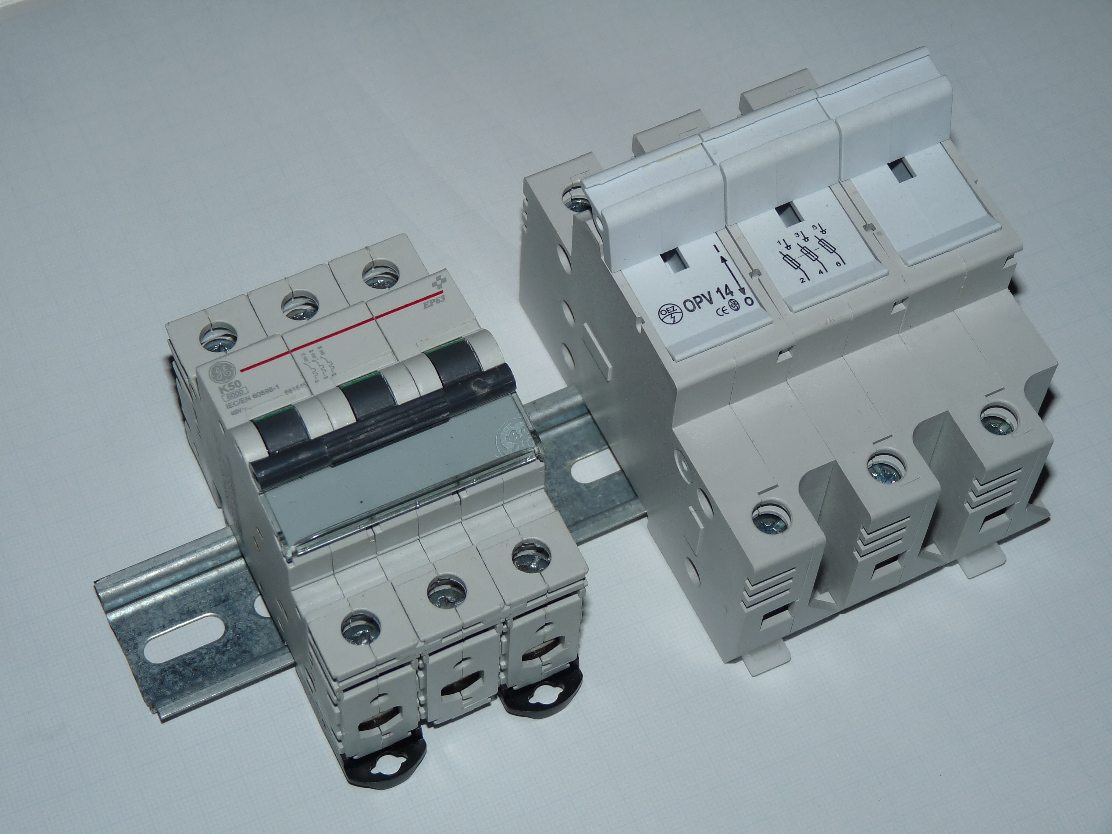 Fuse disconnector and circuit breaker, both have the same amperage.